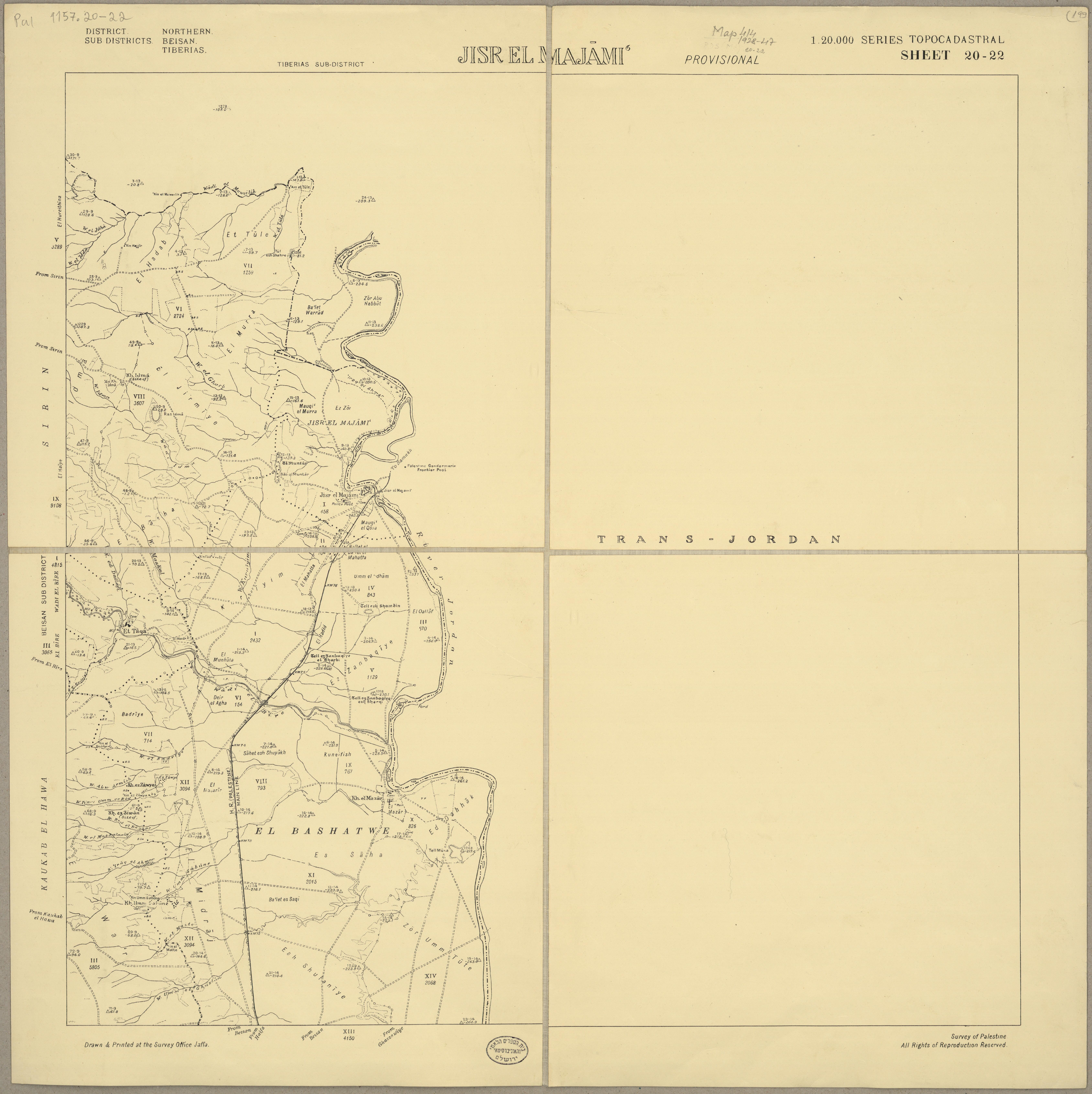 Survey of Palestine maps